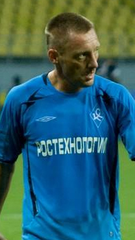 Andrey Tikhonov, Russian footballer.